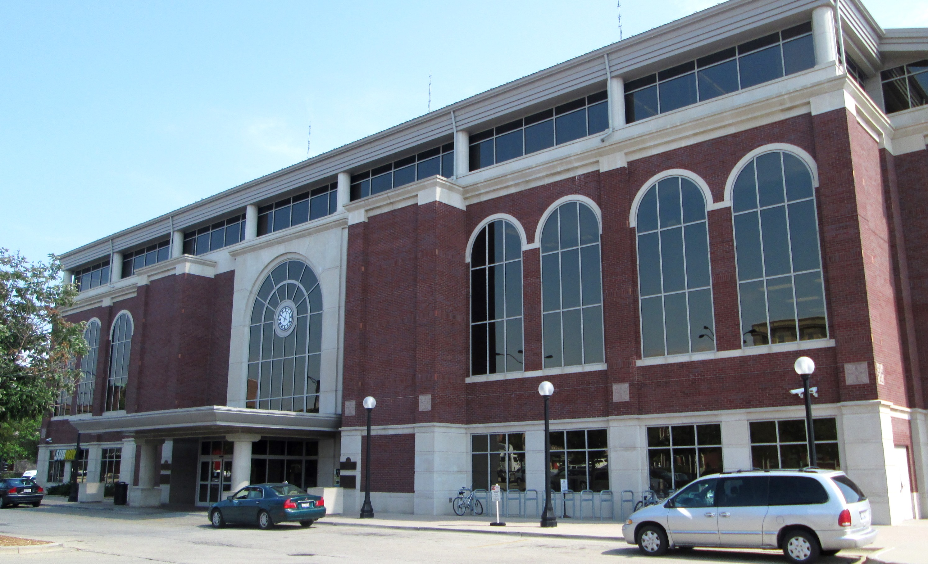 The Illinois Terminal at 45 East University Avenue in Champaign, Illinois is an intermodeal facility which opened in 1999, and provides Amtrak train service and various bus services to the Champaign-Urbana area. Owned by the Champaign Urbana Mass Transit District, the building, which opened in 1999, also contains a school, offices, meeting spaces and banquet rooms. The building was named for the Illinois Terminal Railway, an electric interurban line that ran from Champaign, and at one time extended as far as St. Louis. The track and platforms of the Illinois Terminal are owned by the Canadian National Illinois Central Railroad (Source: [1])